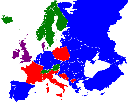 Personal Identity Cards in Europe: All citizens over 18 must have an ID Citizens under 18 must have an ID Citizens don't have to have an ID (other documents are the same like ID) National identity card doesn't exist